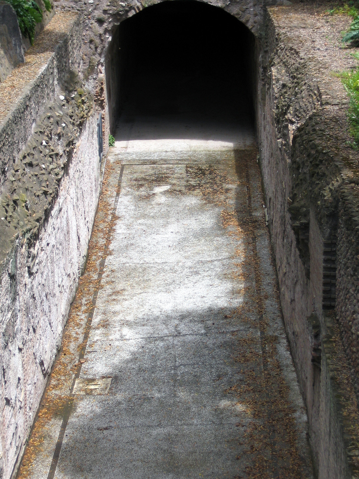 see above